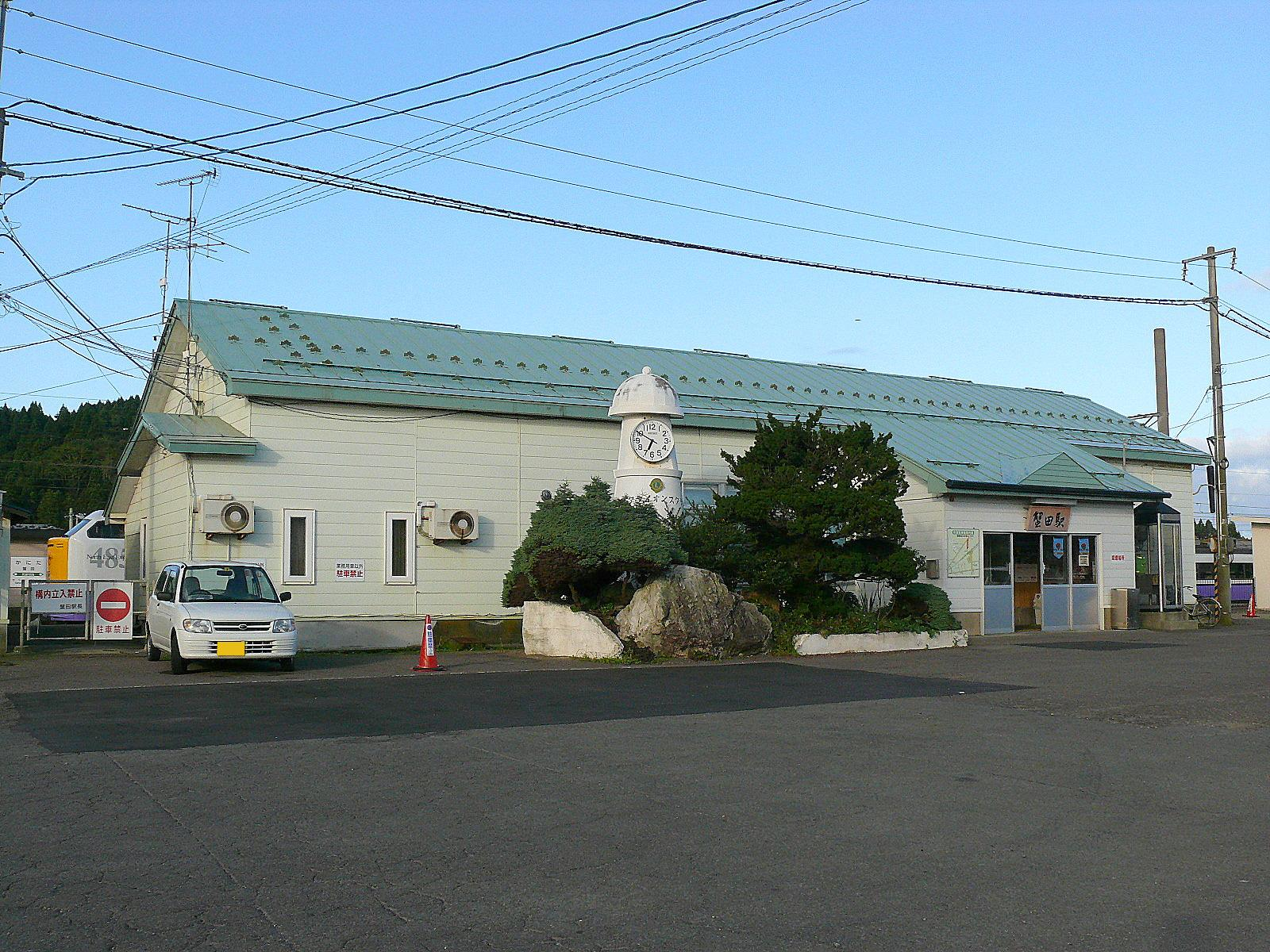 JR East Tsugaru Line Kanita Station,Aomori,Japan.